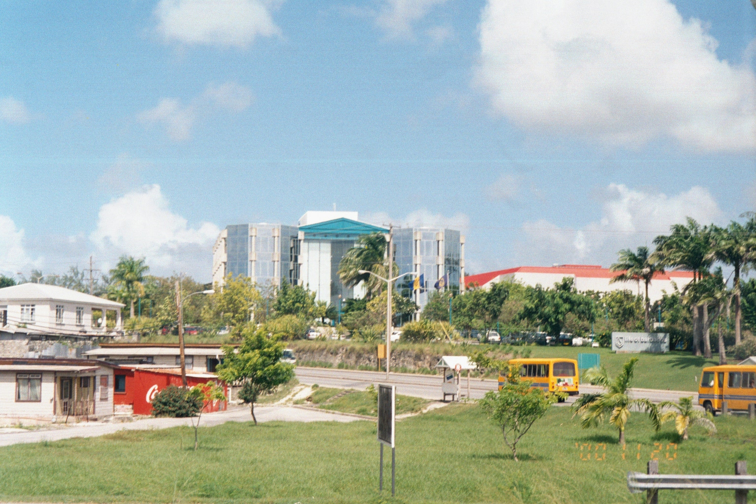 Sagicor Financial (Formerly Life of Barbados Insurance) building along the ABC Highway near the Sir Garfield Sobers roundabout in Barbados.